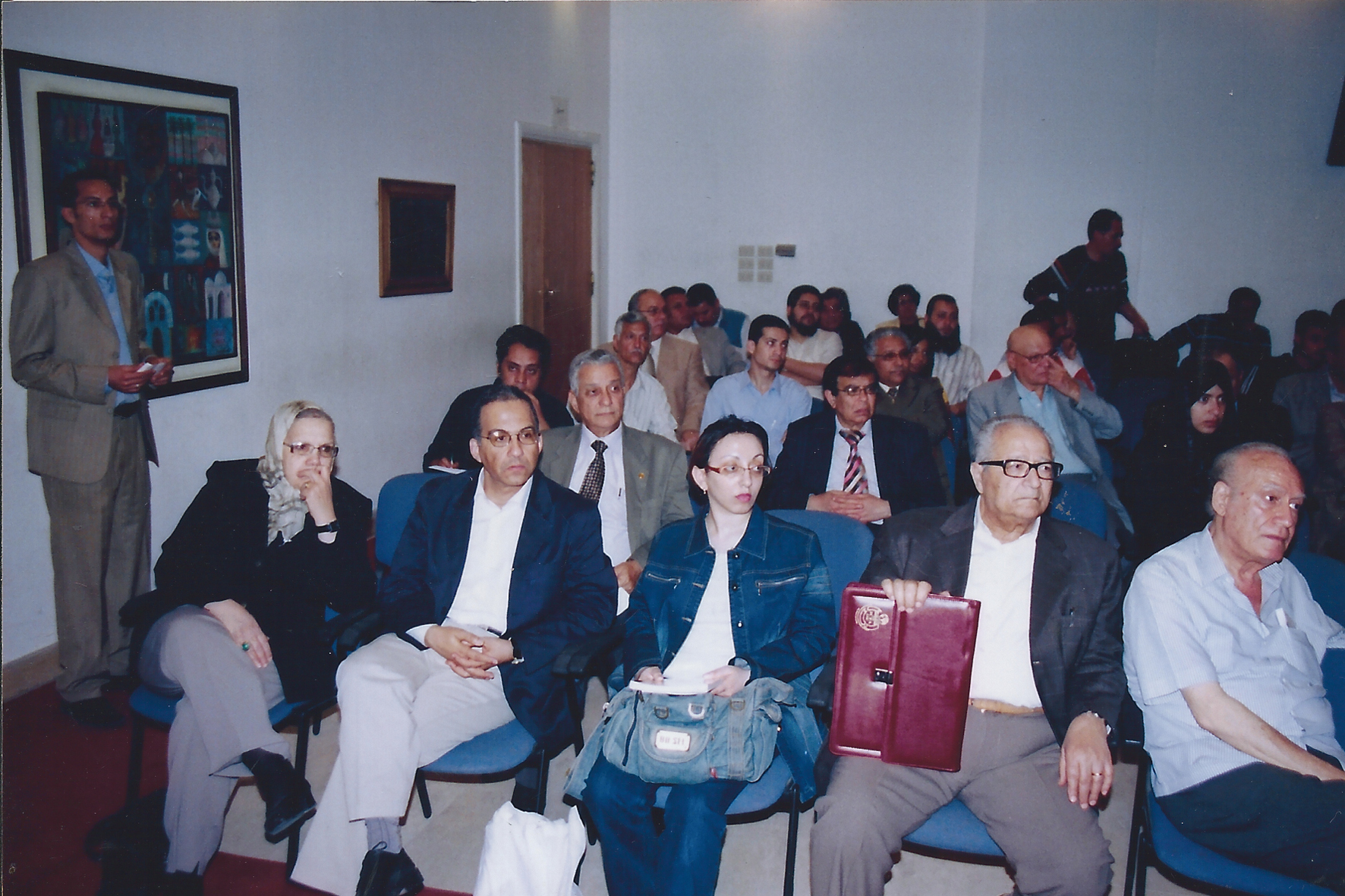 Dr. Awni Abdul Rauf in a meeting of the Supreme Council for Culture